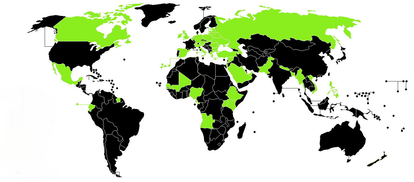 Map of countries, where the Czech company Dominant CZ works (green)